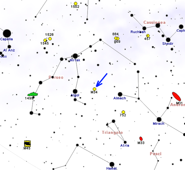 Map of M34